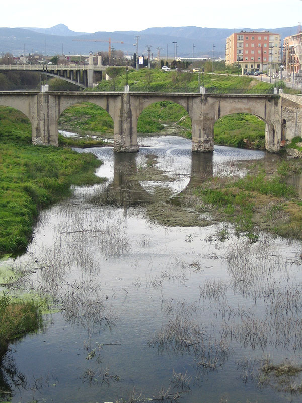 Photo of the river Serpis in Gandia, county Safor, Region of Valencia, Spain.